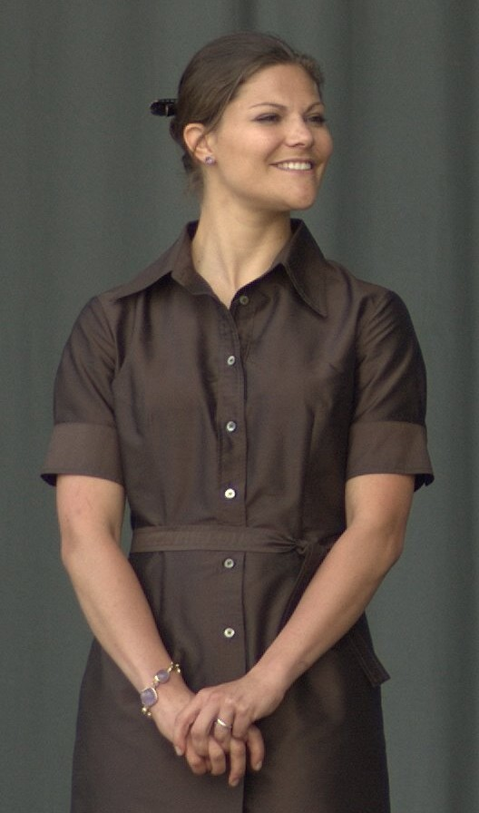 This the crownprincess Victoria of Sweden at the opening ceremony of Götatunneln (a tunnel in Gothenburg, Sweden). Camera: Nikon D50